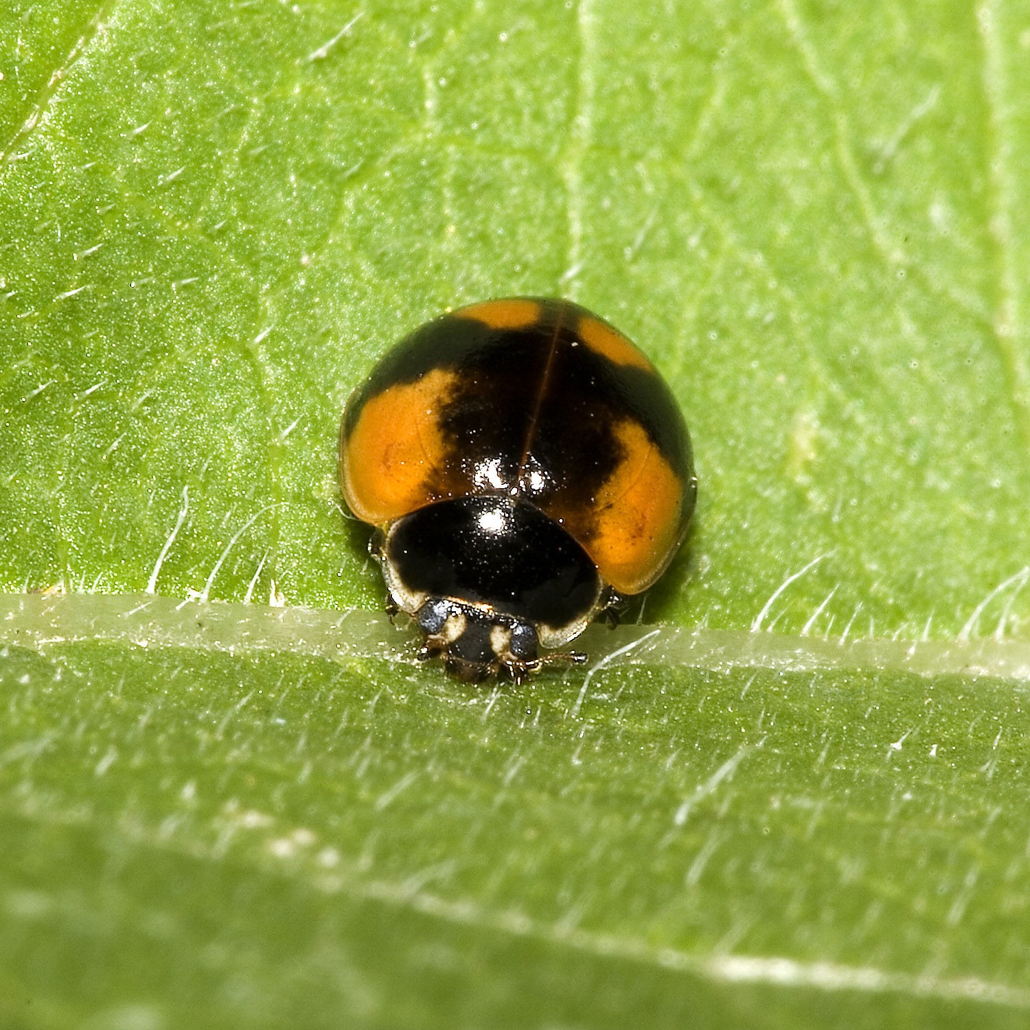 Adalia bipunctata